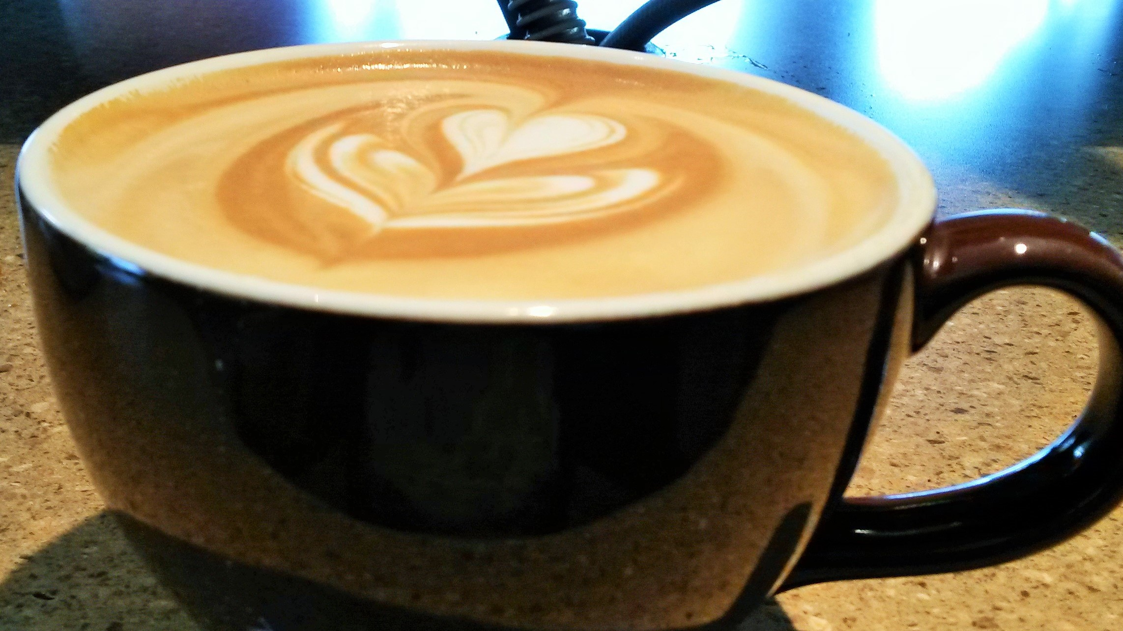 Latte, with latte art in a 12oz ceramic mug